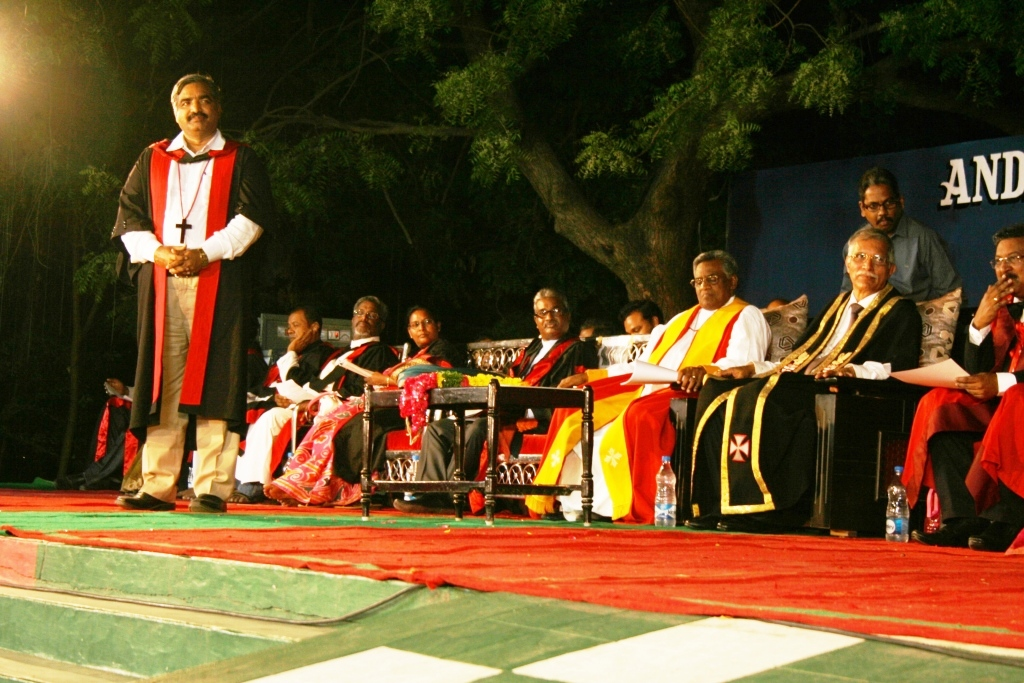 Bishop at ACTC